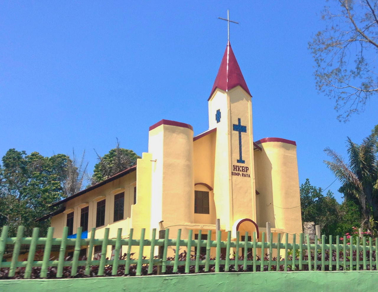 HKBP Simpang Raya, Church in Simalungun